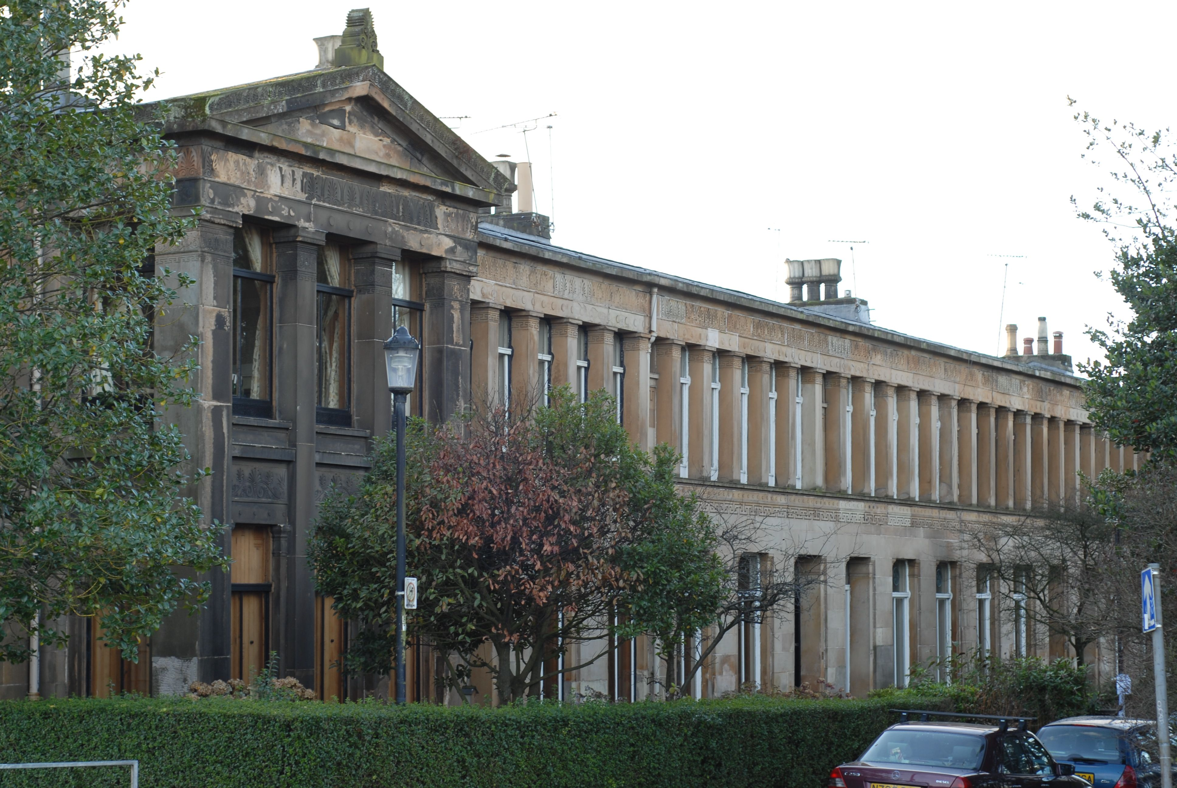 Moray Place, Glasgow, Architect Alexander Thomson, 1859.